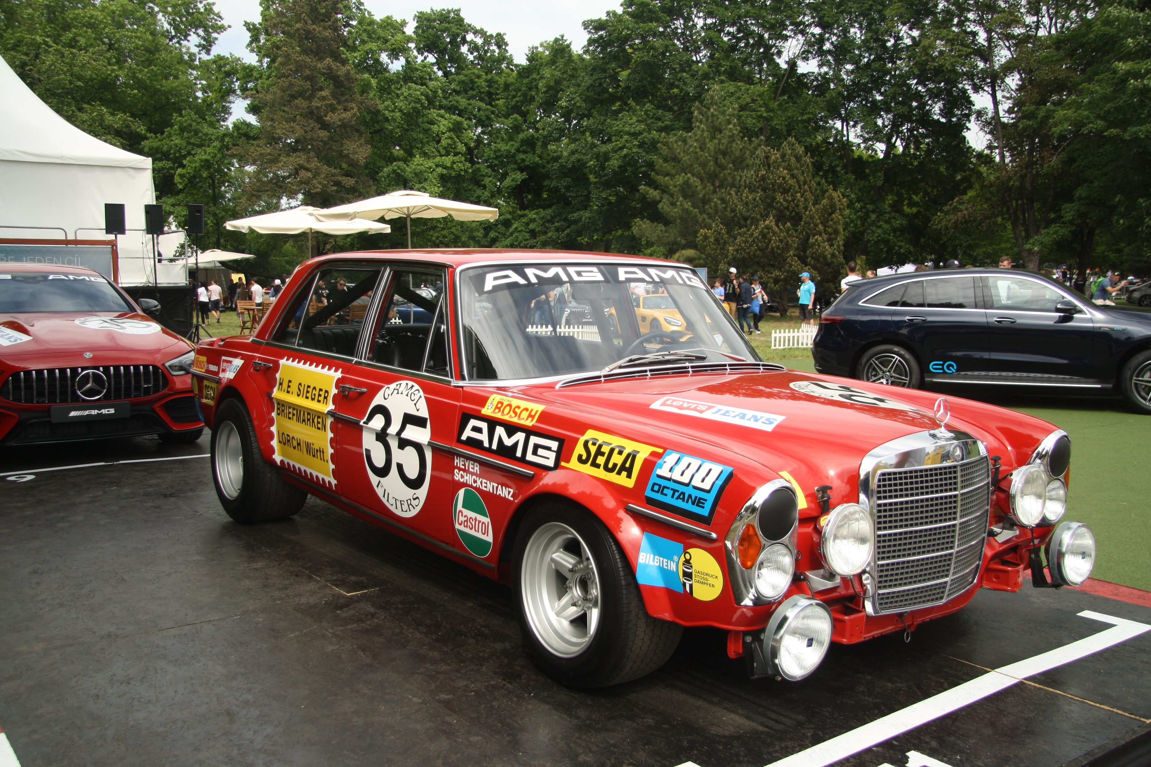 Mercedes-Benz AMG 300 SEL 1971 at Legendy 2019 in Prague.